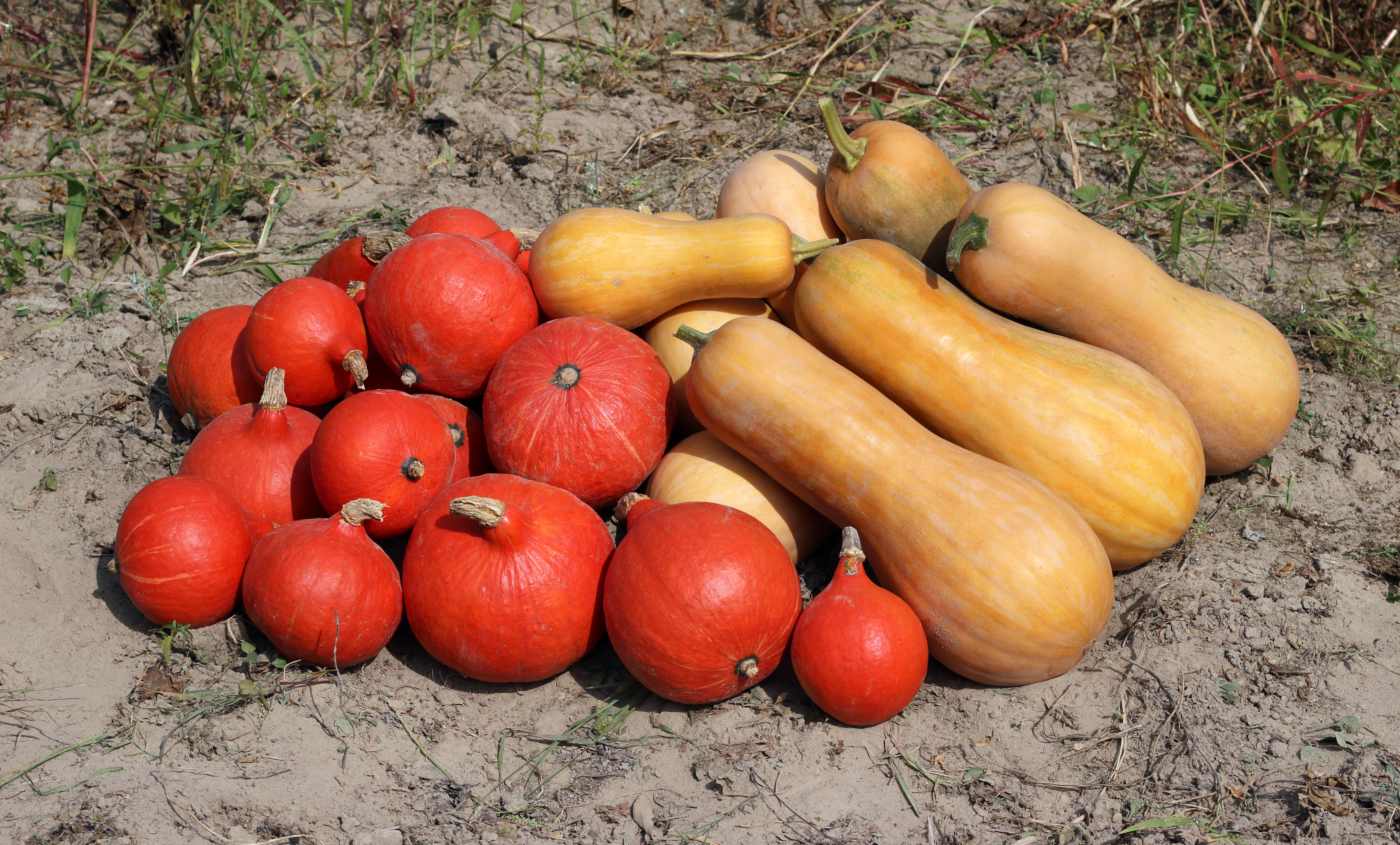 Squashes Cucurbita maxima (red) and butternut squashes Cucurbita moschata (yellow-orange), ripe fruits. Ukraine, Vinnytsia rajon.